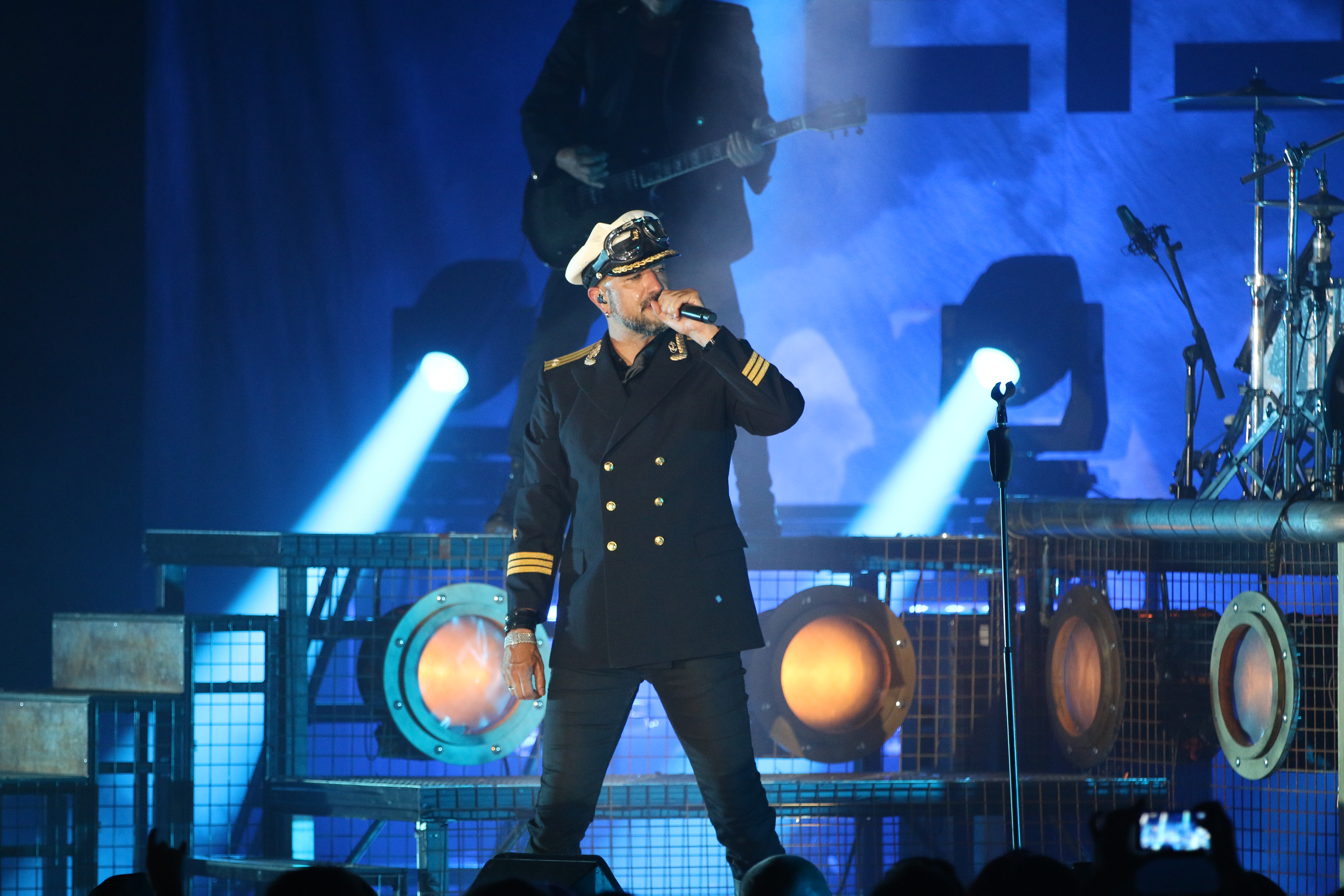 Eisbrecher at the Zelt-Musik-Festival in Freiburg im Breisgau on July 17th, 2016.